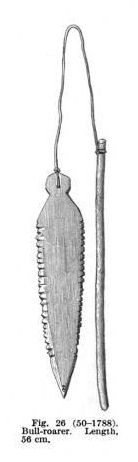 Gros Ventre Bull Roarer (nakaantan, "making cold")